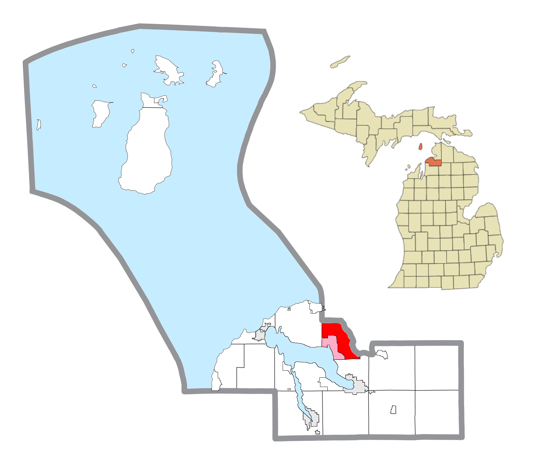 Bay Township, MI